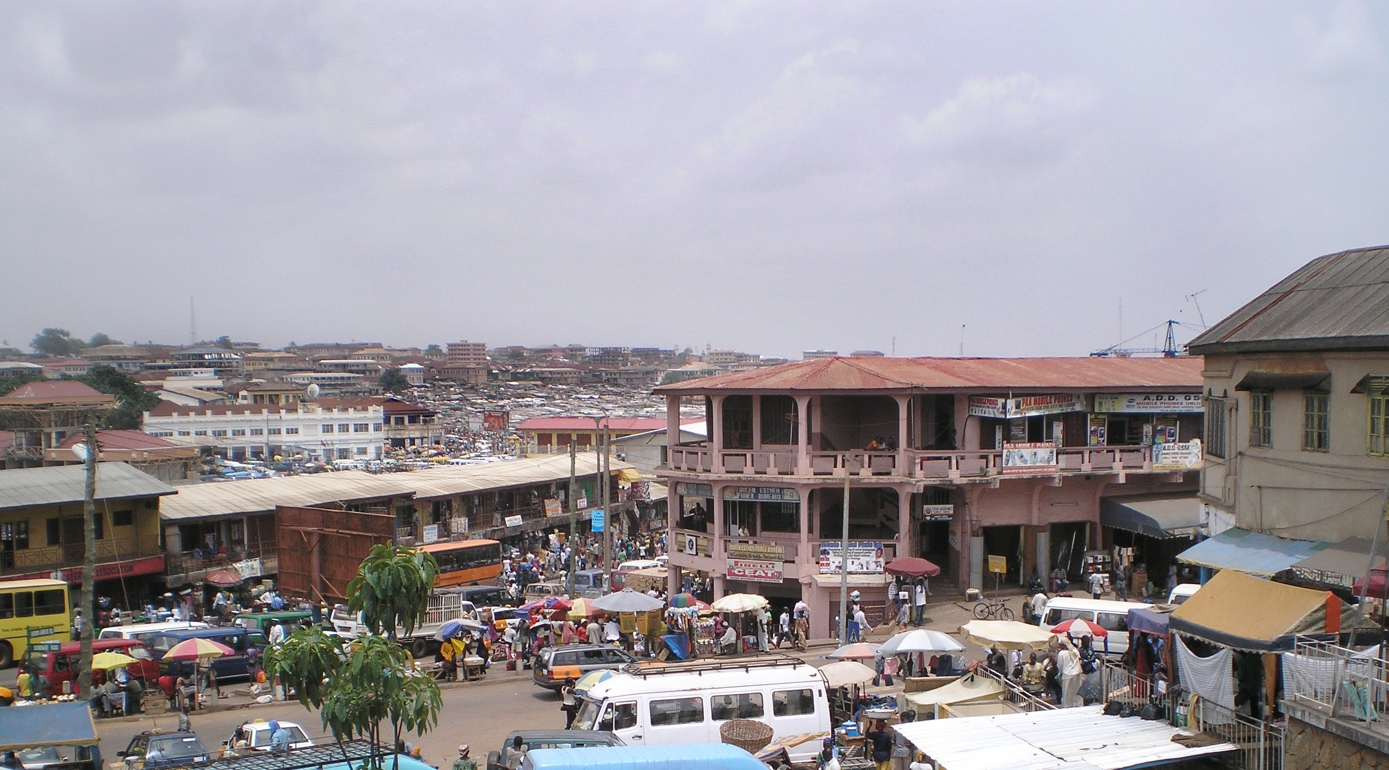 Business center of Kumasi, close to the central market.